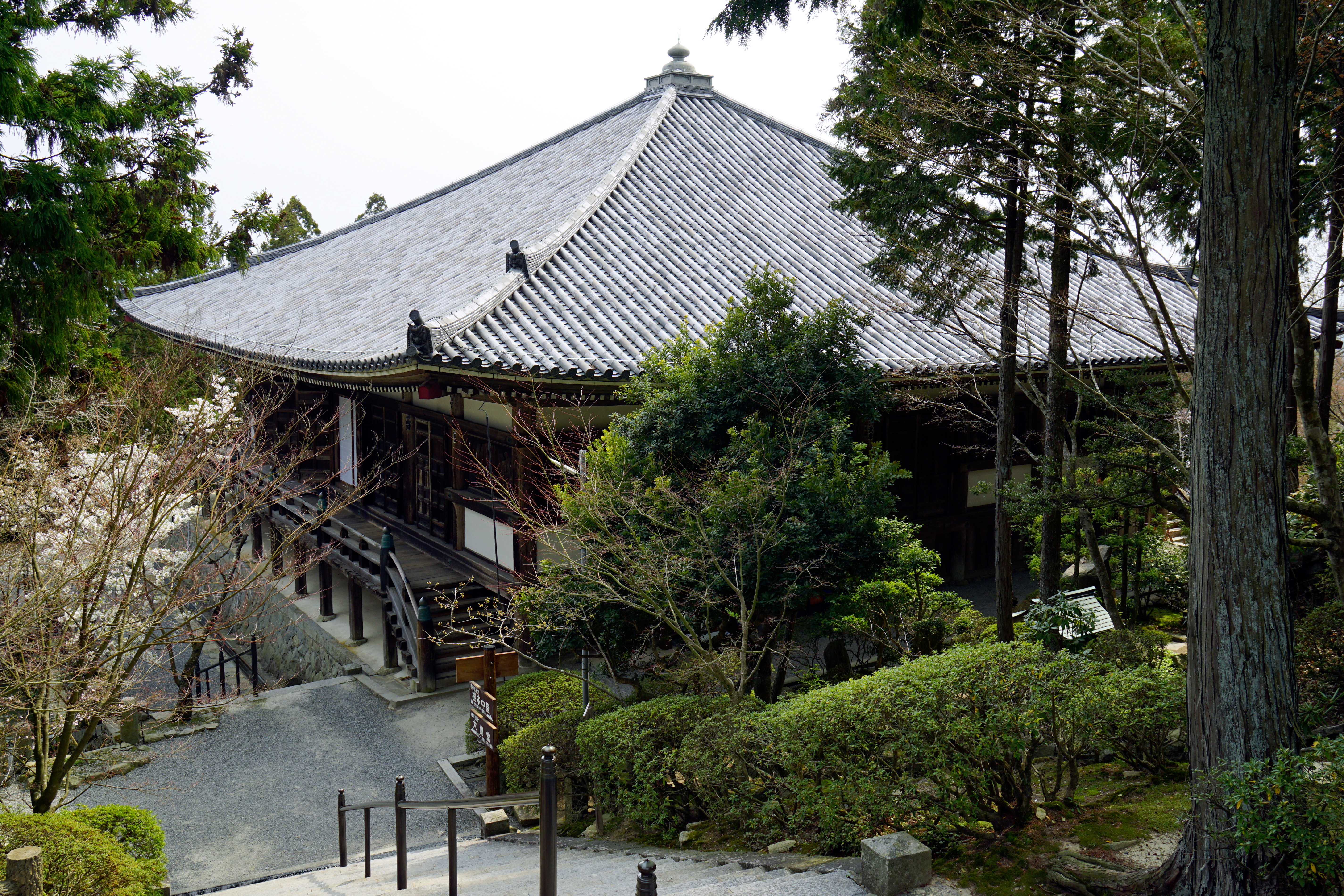 Kiyomizu-dera in Kato, Hyogo prefecture, Japan.